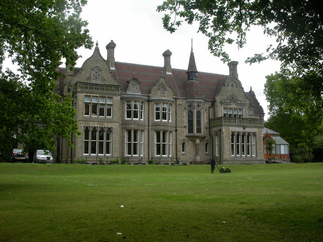 Altrincham, Denzell House. Substantial Victorian house, built in 1874 for industrialist Robert Scott; the surrounding gardens are owned by Trafford Council and open to the public (1313208), but the house is in private possession.